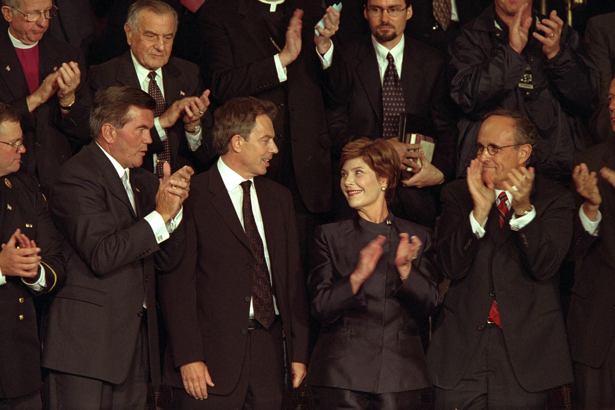 British Prime Minister Tony Blair receives applause as he stands with Mrs. Laura Bush during a televised national address to the joint session of Congress. Also pictured are Pennsylvania Governor Tom Ridge, left, and New York Mayor Rudolph Giuliani.